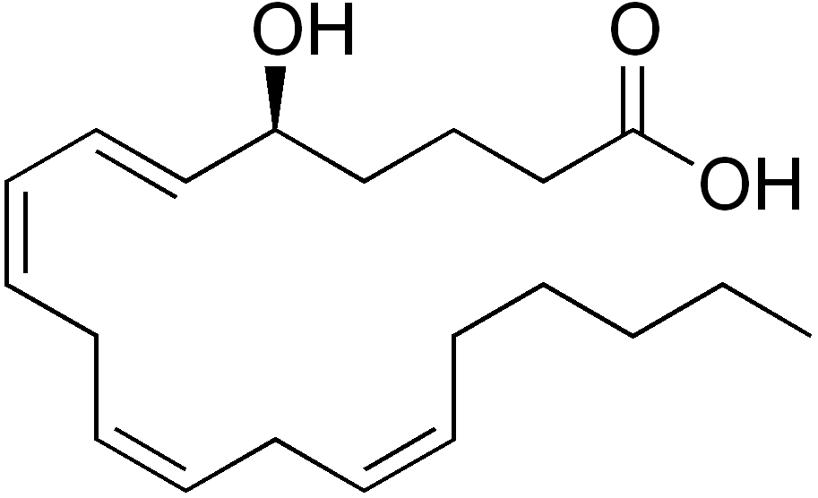 chemical structure of 5-Hydroxyeicosatetraenoic acid (5-HETE)